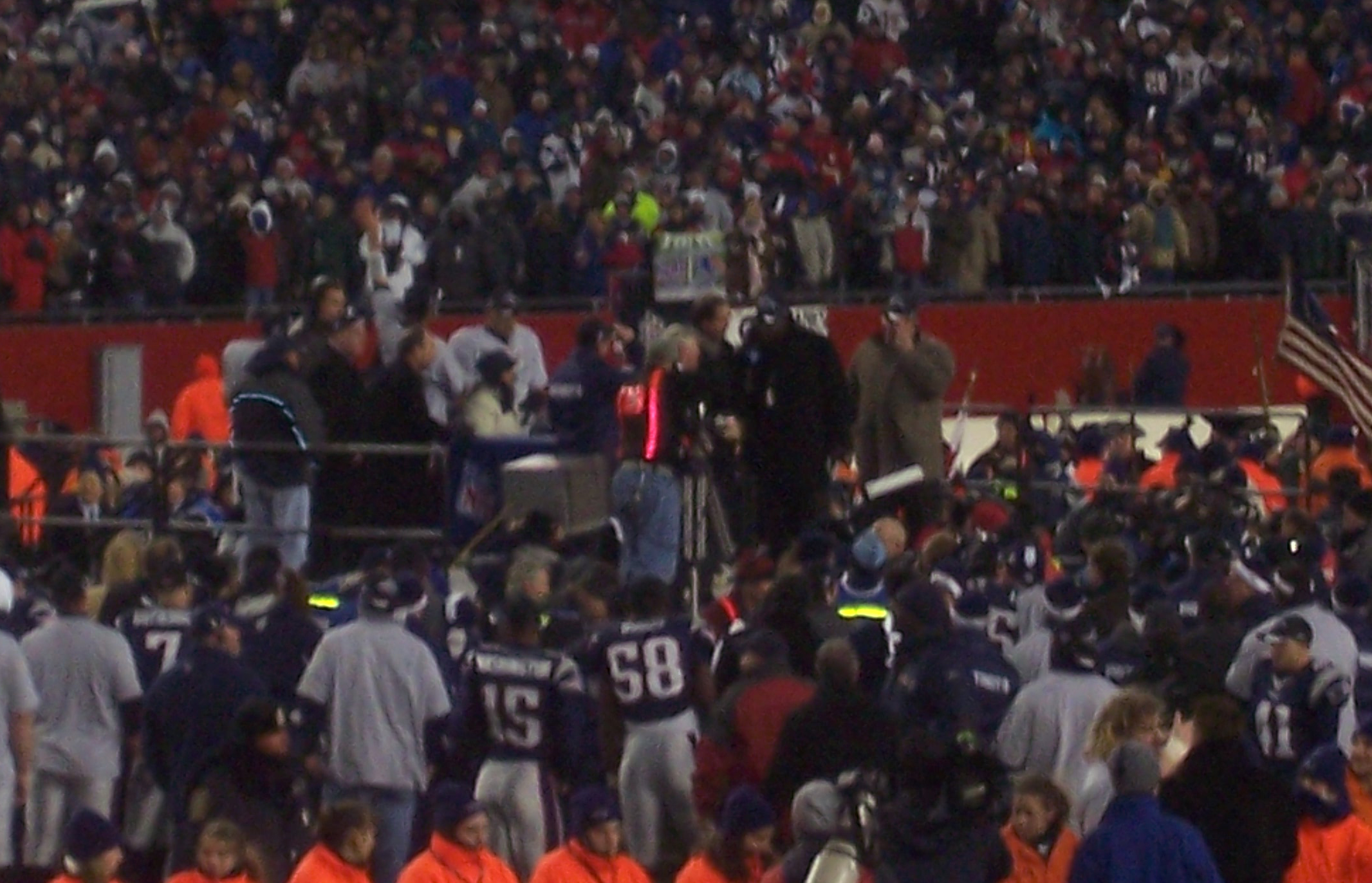 Andre Tippett presenting New England Patriots owner Robert Kraft with the Lamar Hunt trophy following the Patriots' victory over the San Diego Chargers in the 2007-08 AFC Championship.